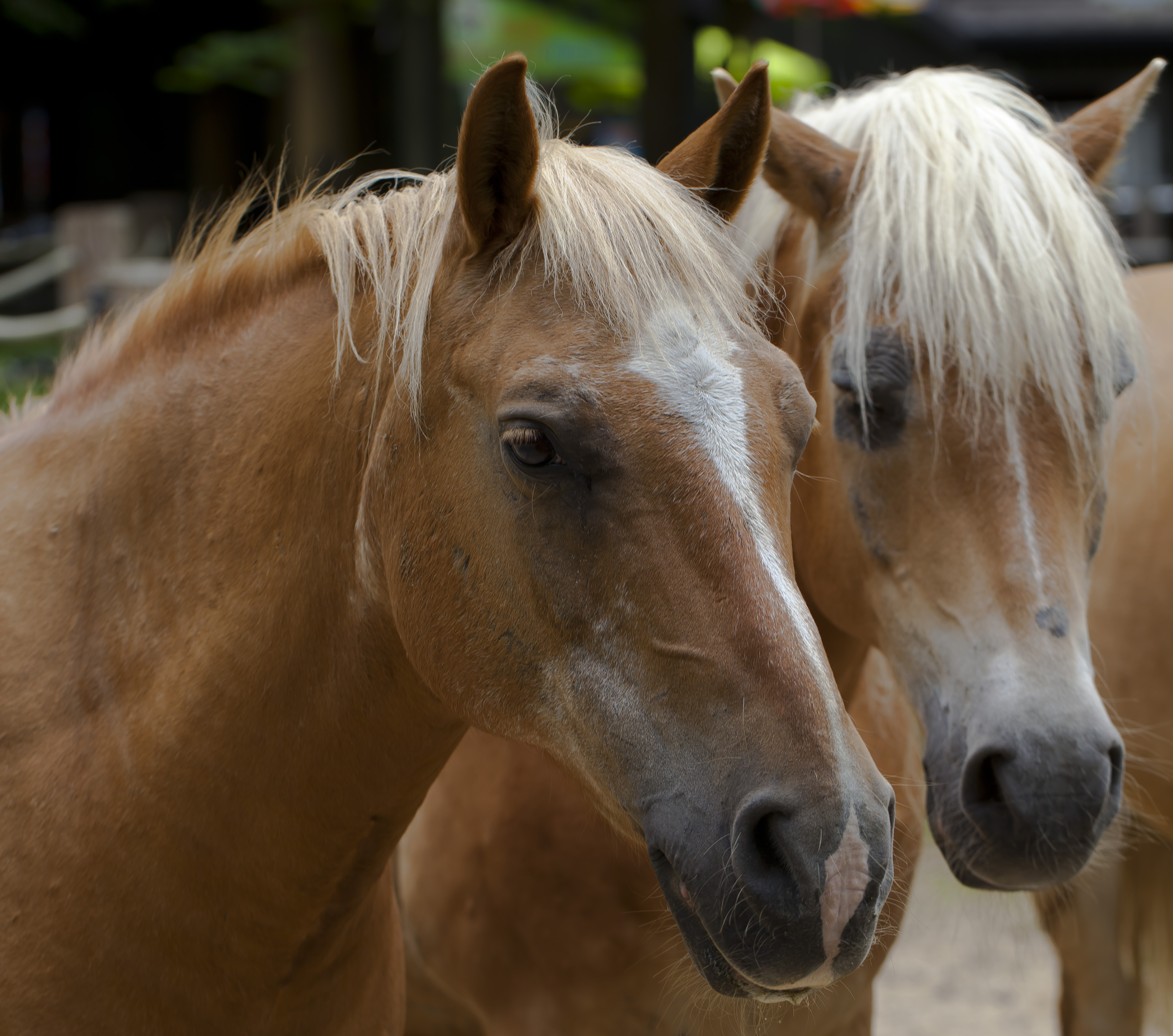 Haflinger, Tierpark Hellabrunn, Munich, Germany